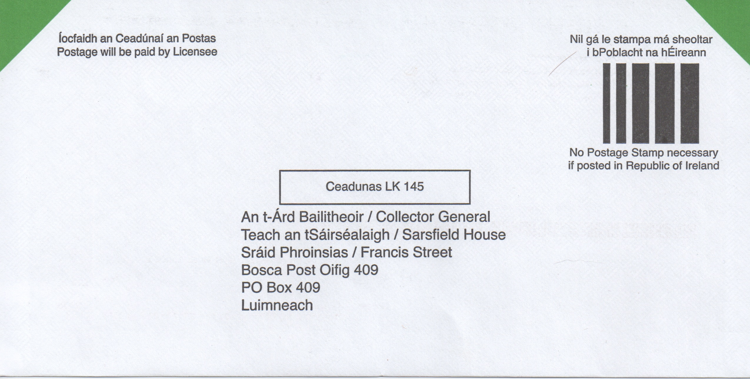 A scan of an envelope from the Irish Revenue Commissioners